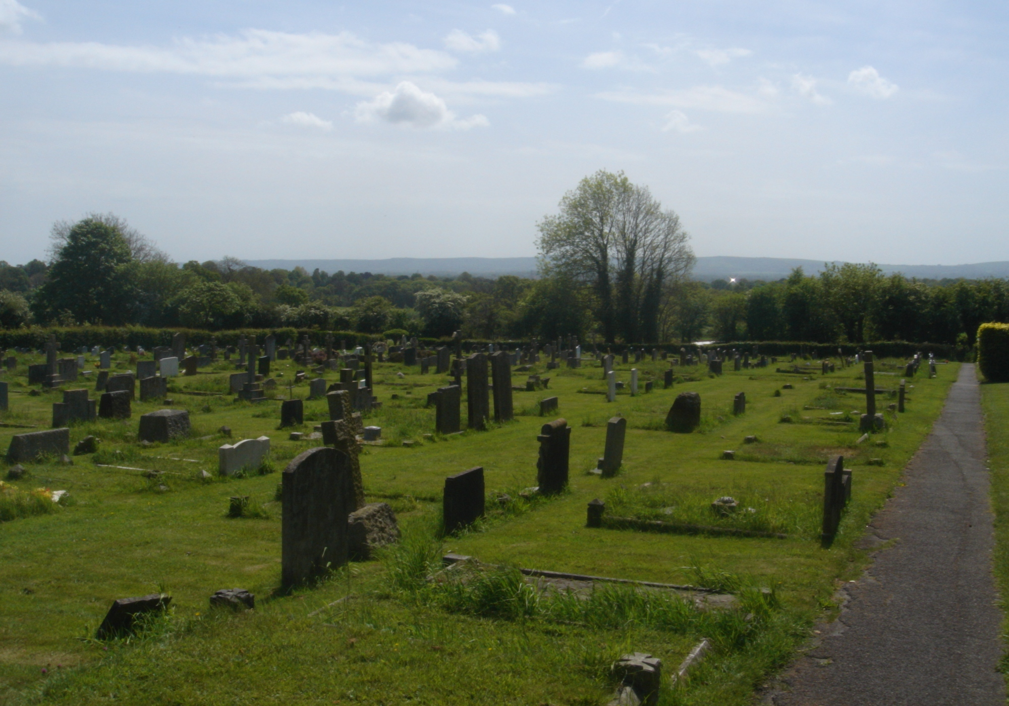 A southward view (towards the South Downs) across the extensive churchyard of the Grade I-listed Holy Trinity Church at Cuckfield, district of Mid Sussex, West Sussex, England (now a cemetery maintained outside the control of the church).